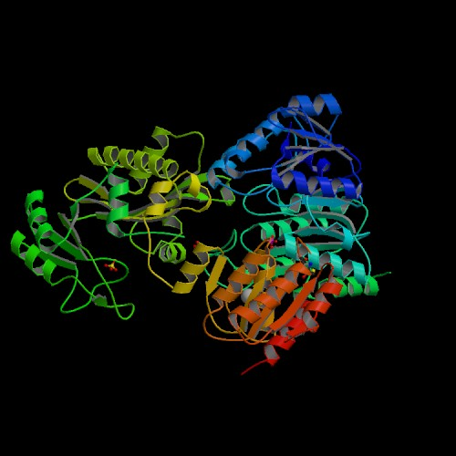 Succinyl-CoA synthetase enzyme from Sus scrofa.